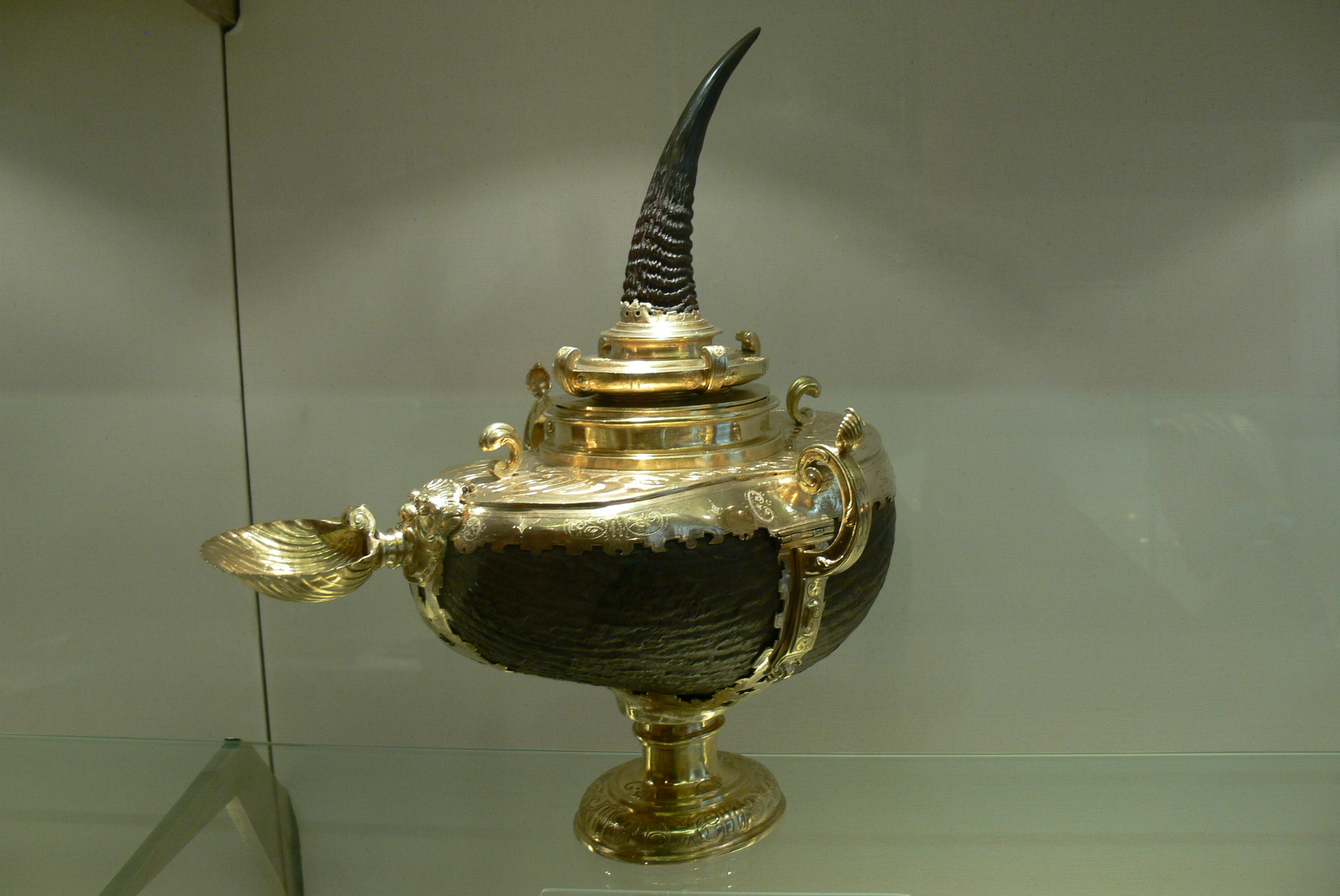 Vienna, Treasury of the German Order. Jug ( 16th century ), made of Coco de mer nut and antilope horn, from Goa ( Inv.-Nr. G-006 ).